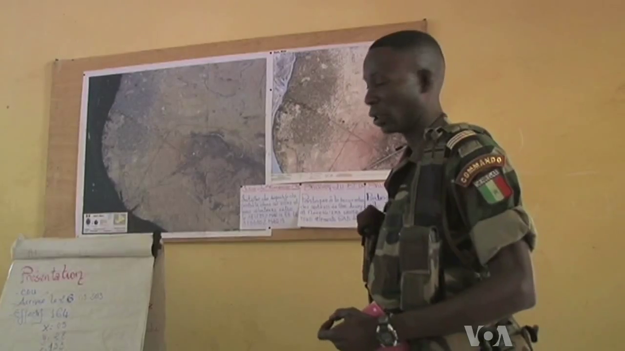 Captain of the Senegalese commando, part of the African-led International Support Mission to Mali, in Gao, March or April 2013